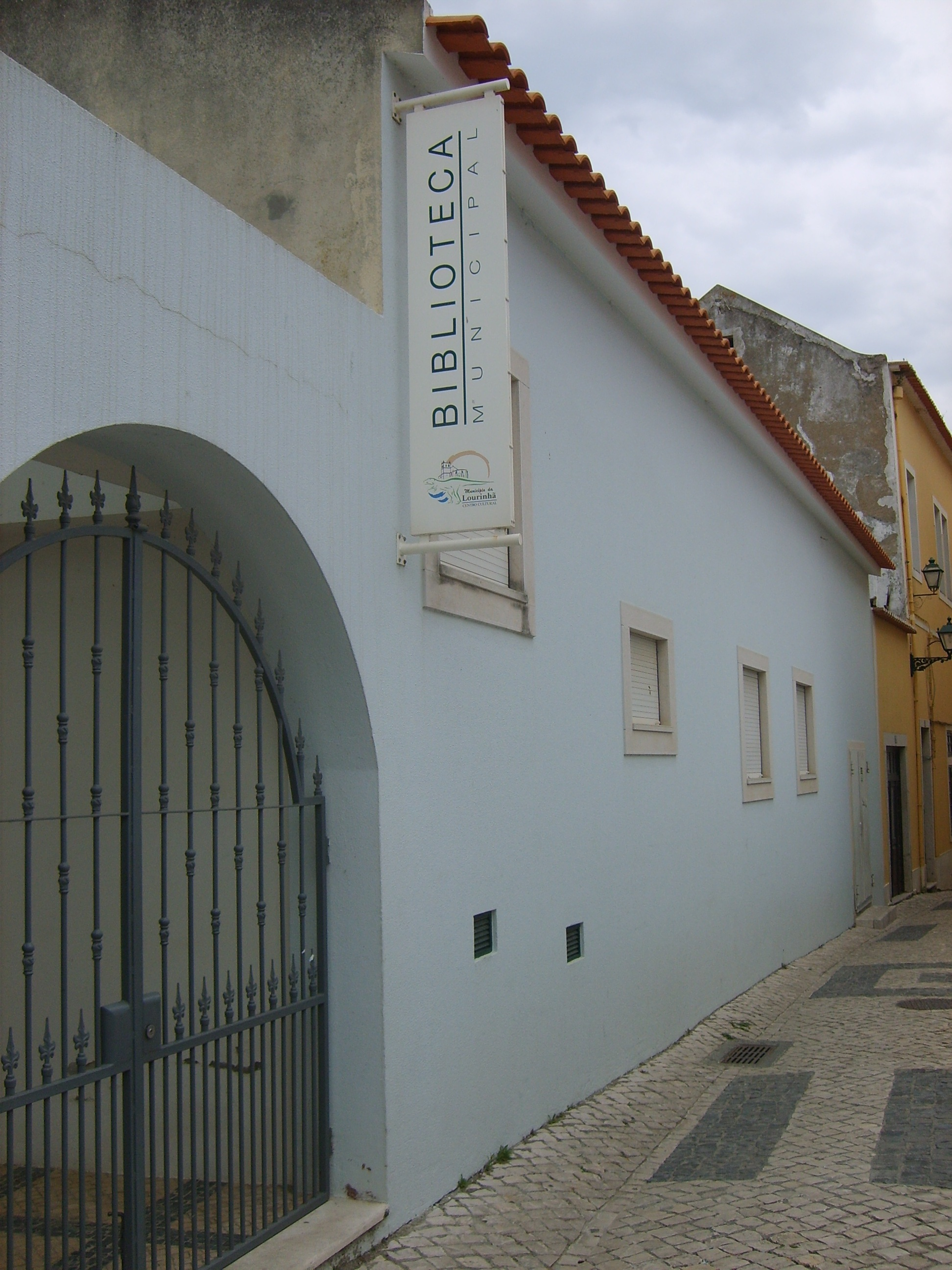 Librarie of Lourinhã